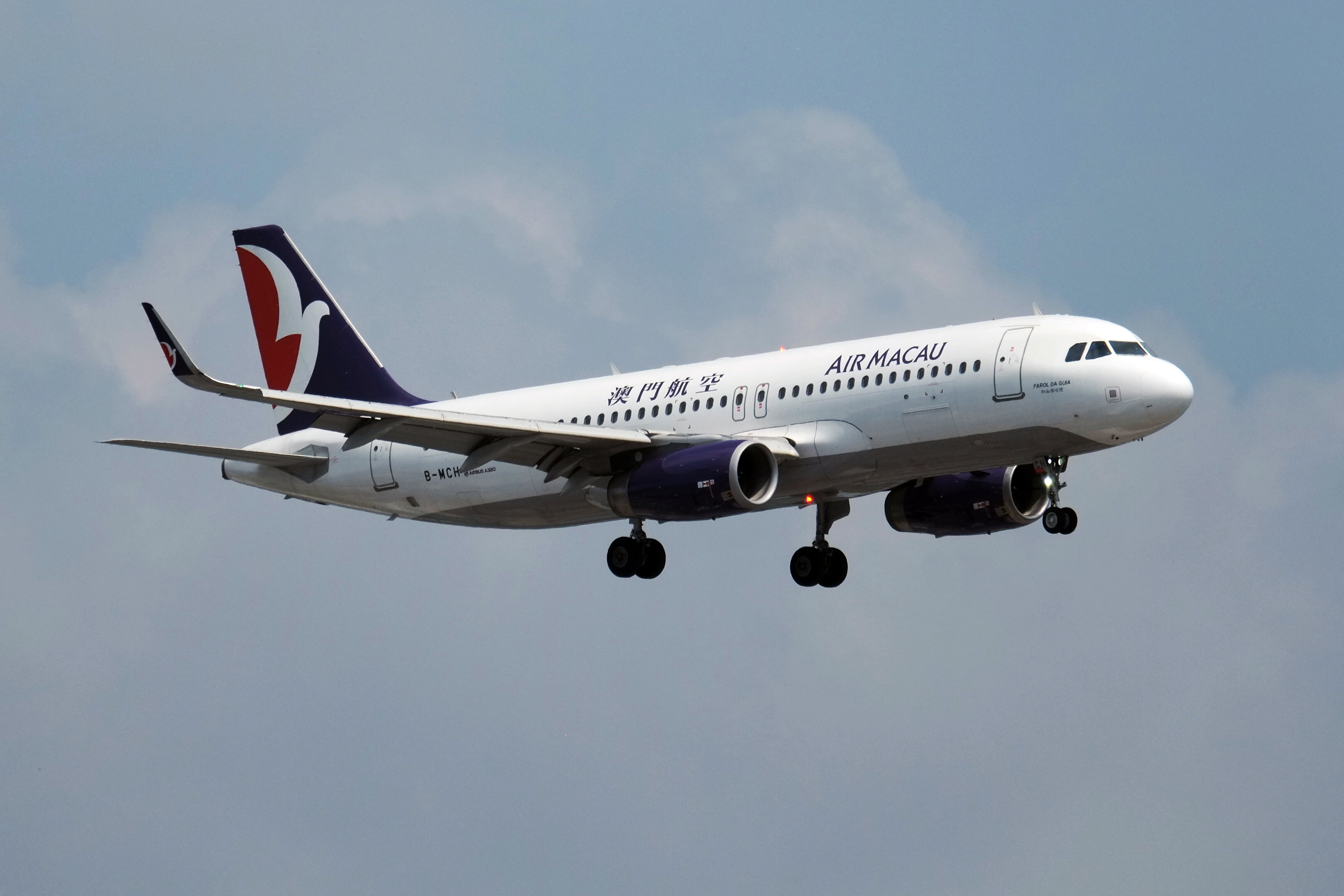 B-MCH on flight NX88 MFM-CGO